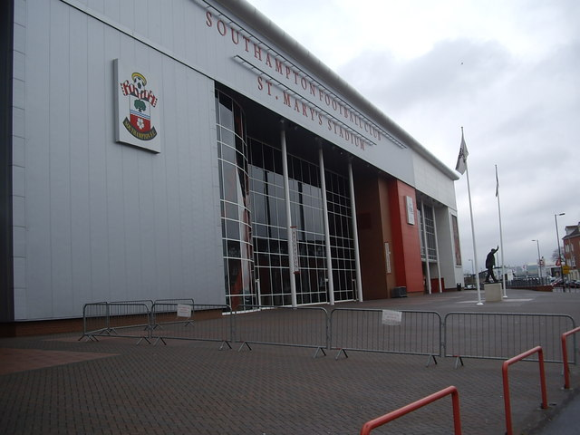 Southampton Football Club, St Mary's Stadium, near to Northam, Southampton, Great Britain. Forecourt.